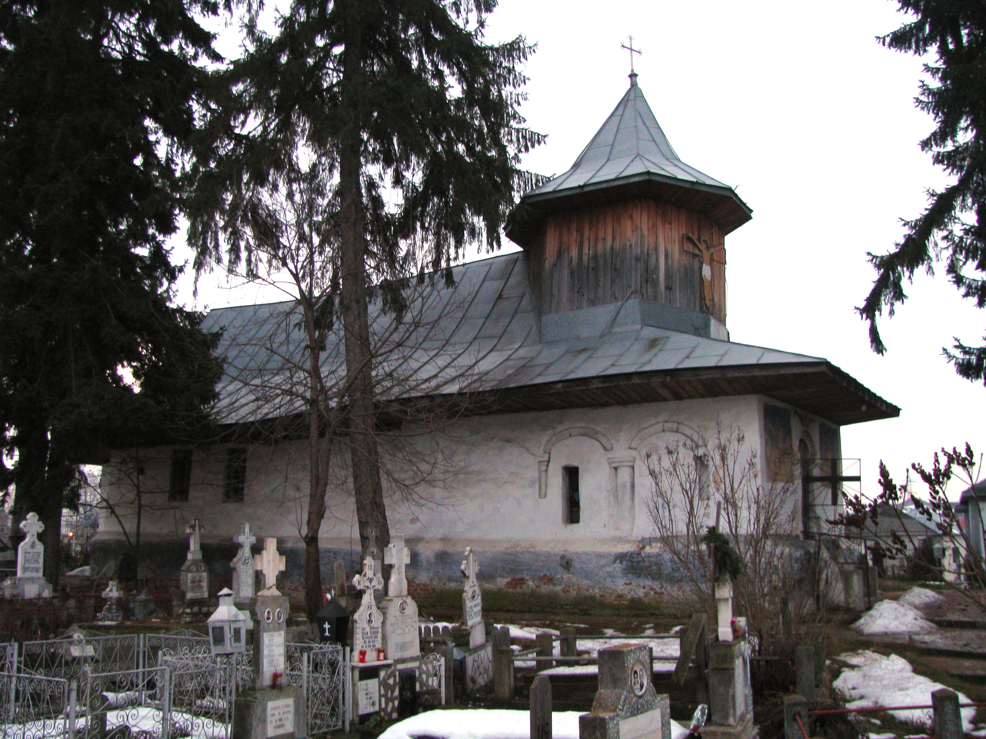 Wooden church "Sf. Gheorghe" from Bascov village, Bascov commune, Argeș county, Romania